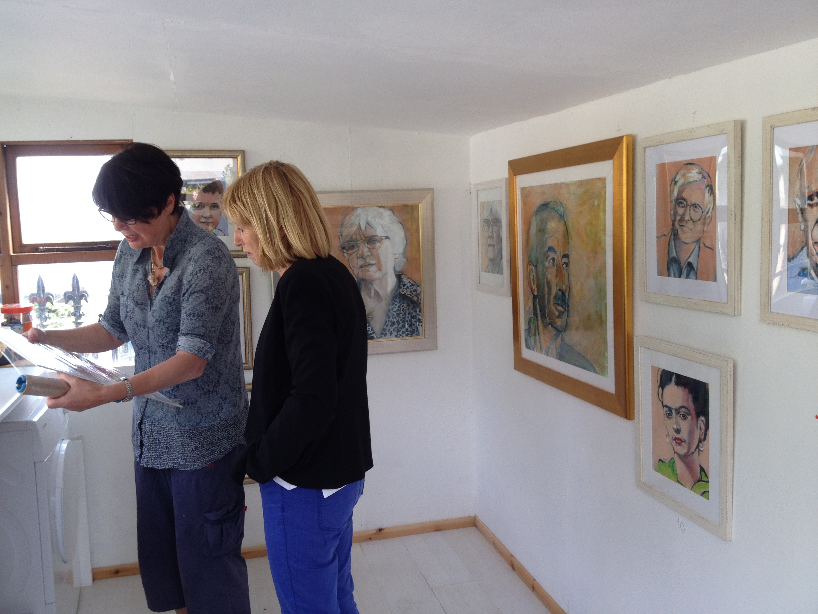 Artists studio in a garden shed used as a gallery at the 2016 Pittenweem Arts Festival, Fife, Scotland